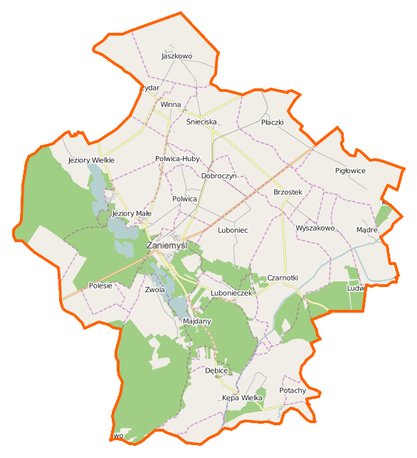 Map of Gmina Zaniemyśl, Poland This map of Zaniemyśl (gmina) was created from OpenStreetMap project data, collected by the community. This map may be incomplete, and may contain errors. Don't rely solely on it for navigation. Border coordinates52.230517.0848←↕→17.286152.0949